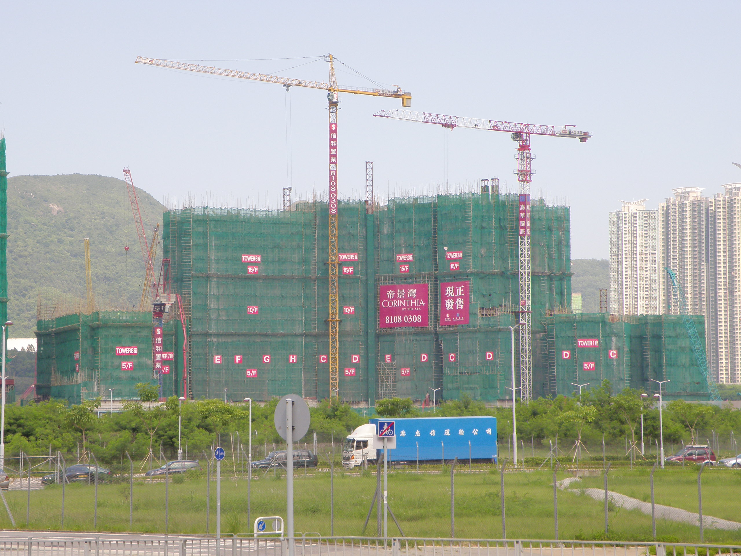 Corinthia by the sea in Tseung Kwan O, Hong Kong.